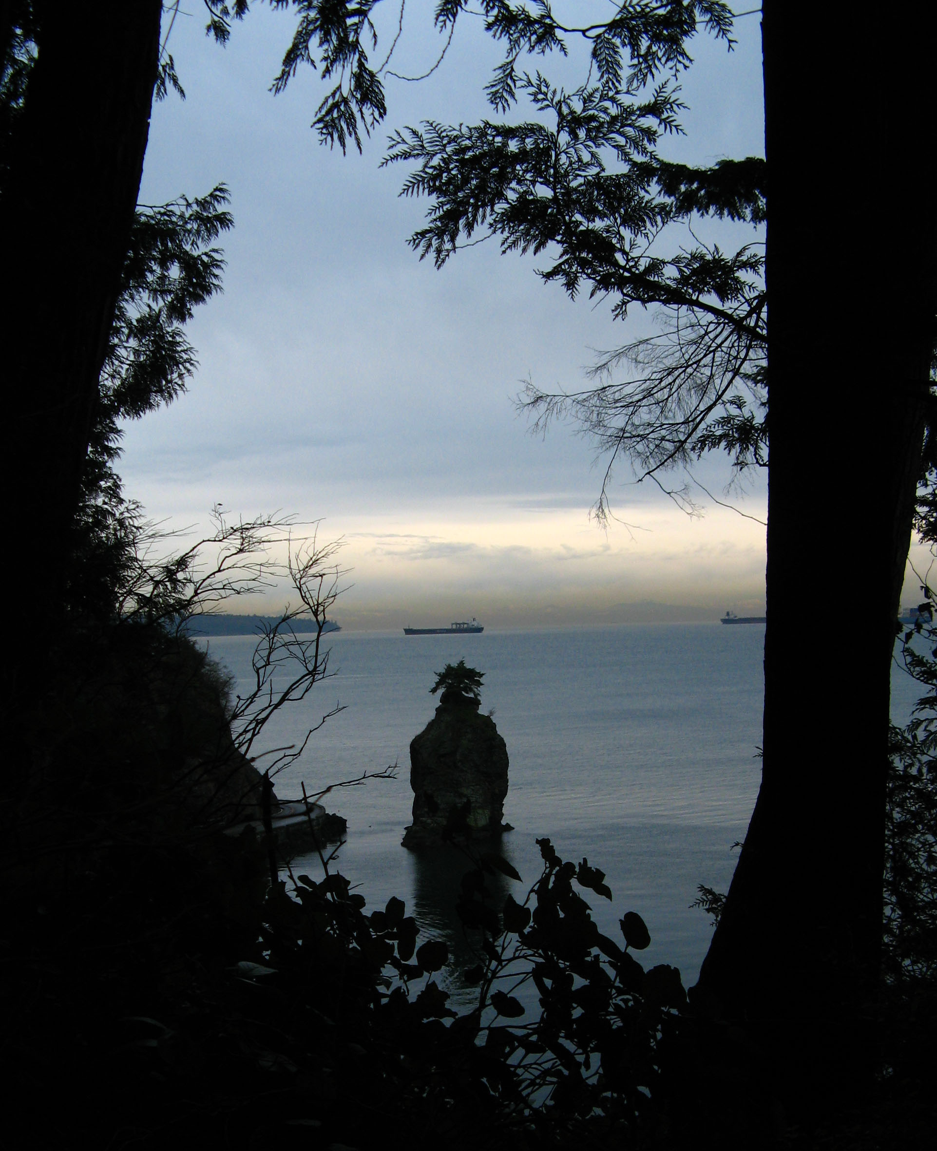 Siwash Rock, Vancouver, Canada